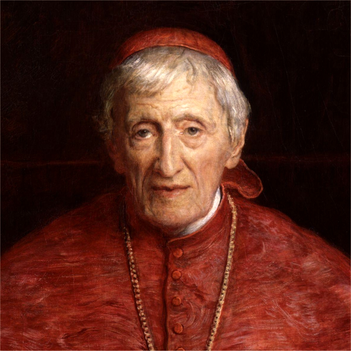 Portrait of John Henry Newman